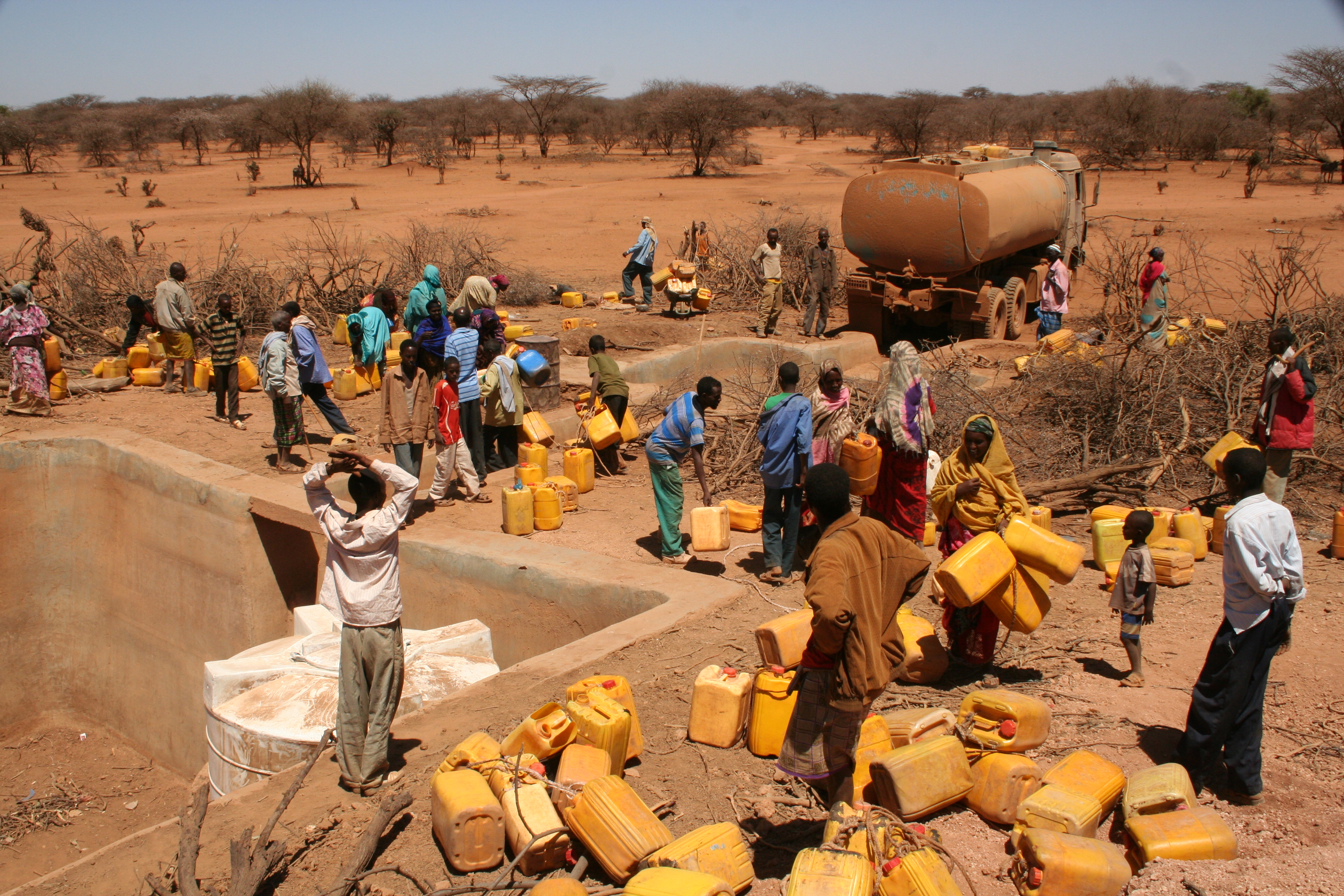 Oxfam distributing water in the Horn of Africa where in the period 2010-2011, experienced a severe drought.